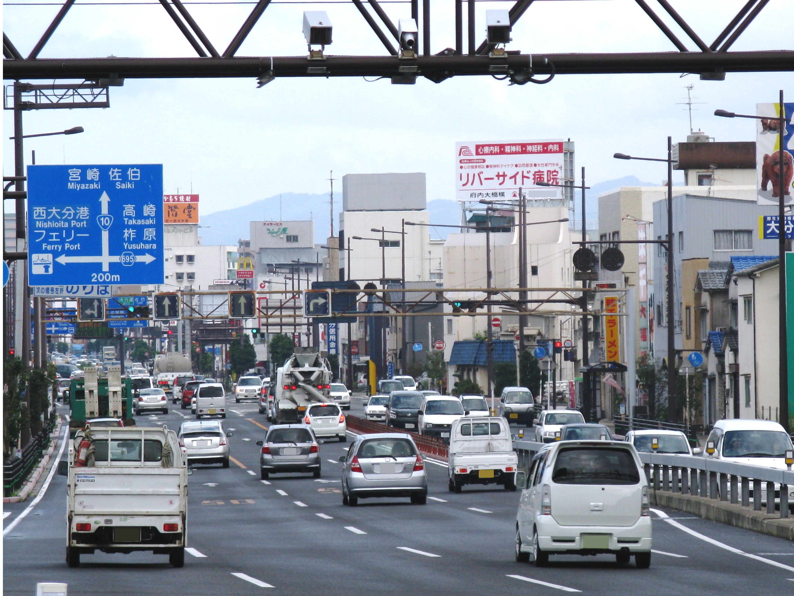 Japan National Route 10, Betsudai Kokudou Entrance